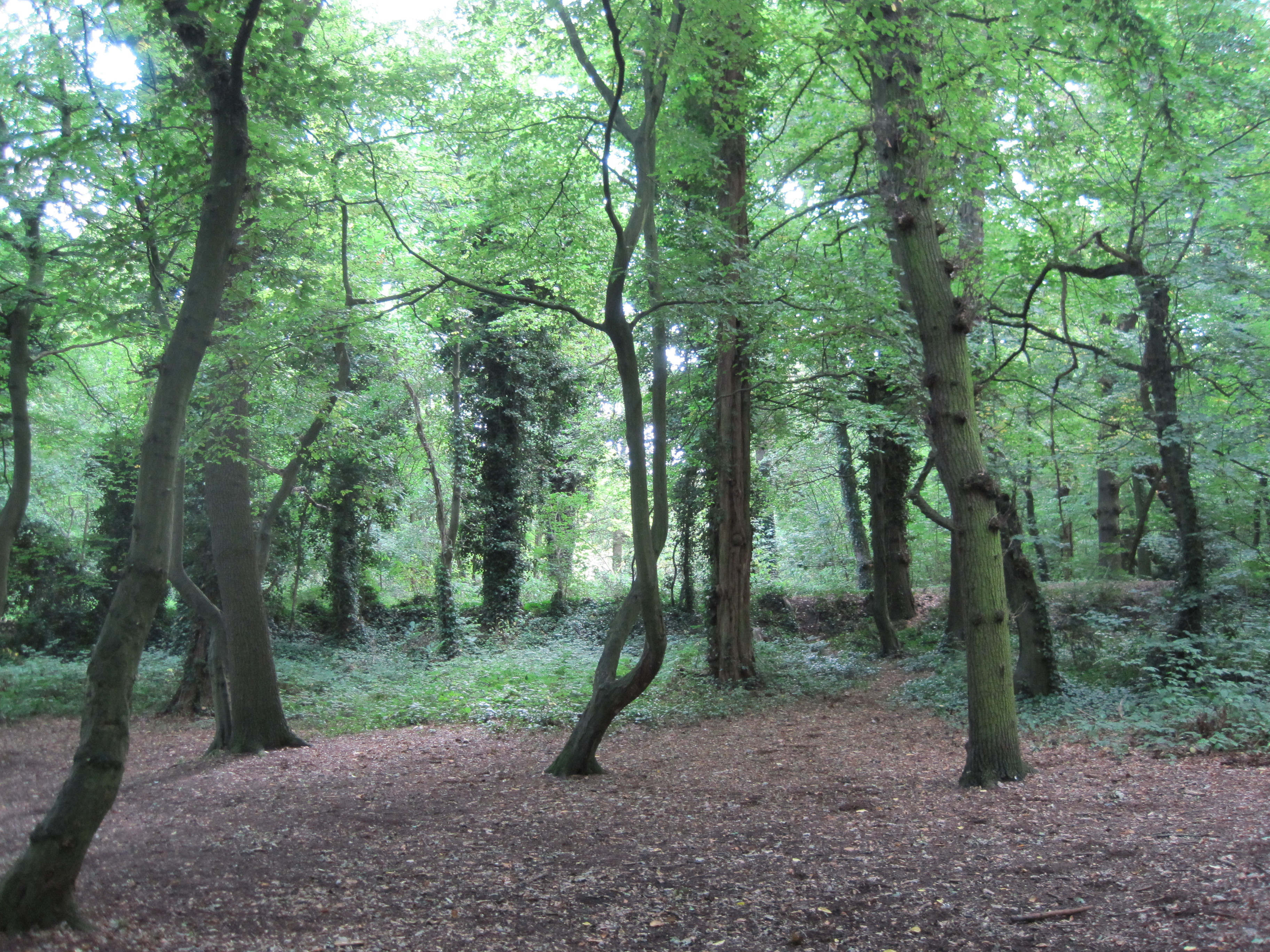 Coppett's Wood nature reserve in Muswell Hill, Barnet, London